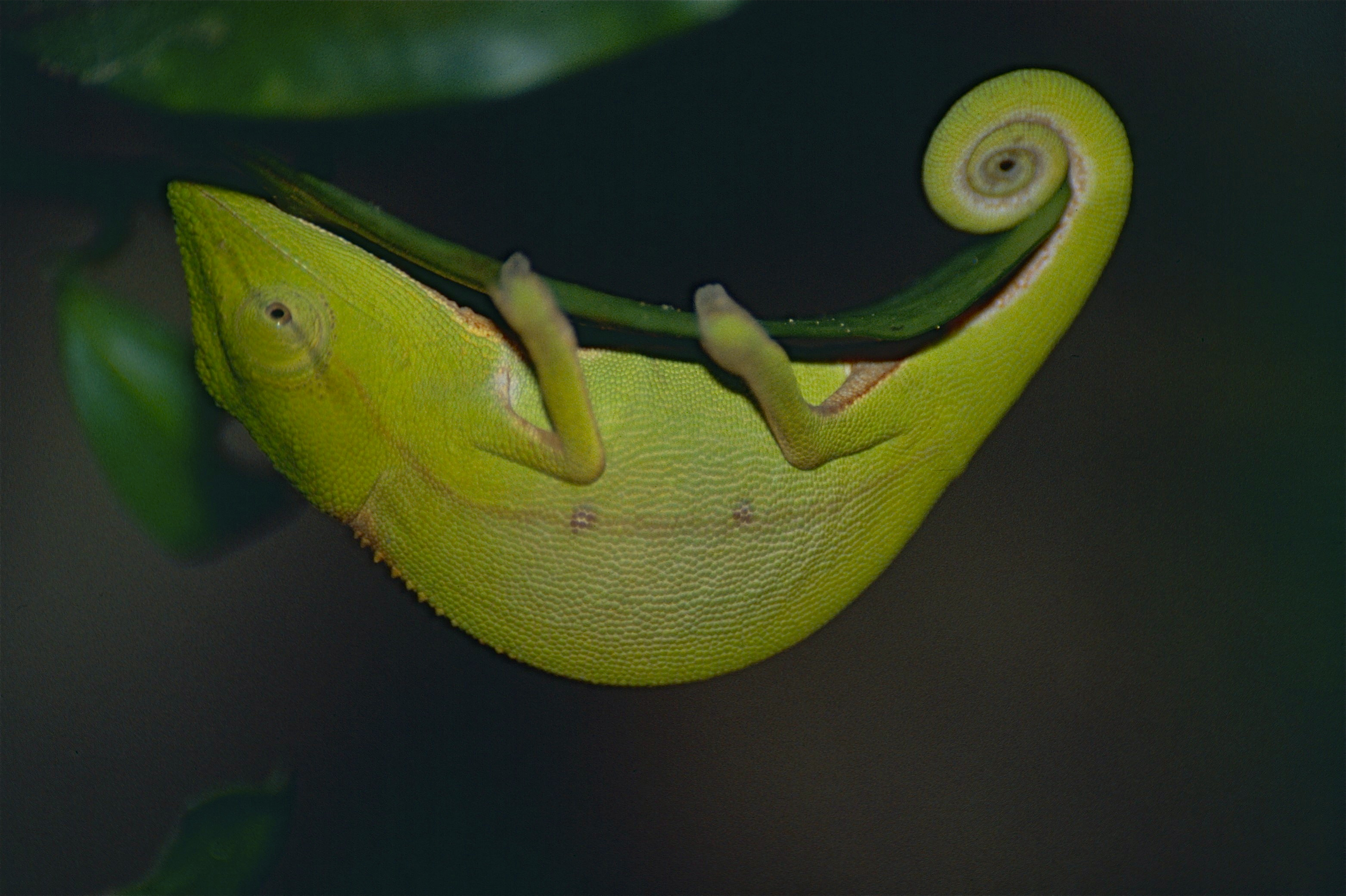 Analamazaotra Reserve, Perinet, MADAGASCAR. This is a male as it has a dorsal crest. Charles (talk) 14:55, 1 January 2019 (UTC) Scanned Slide from 1998